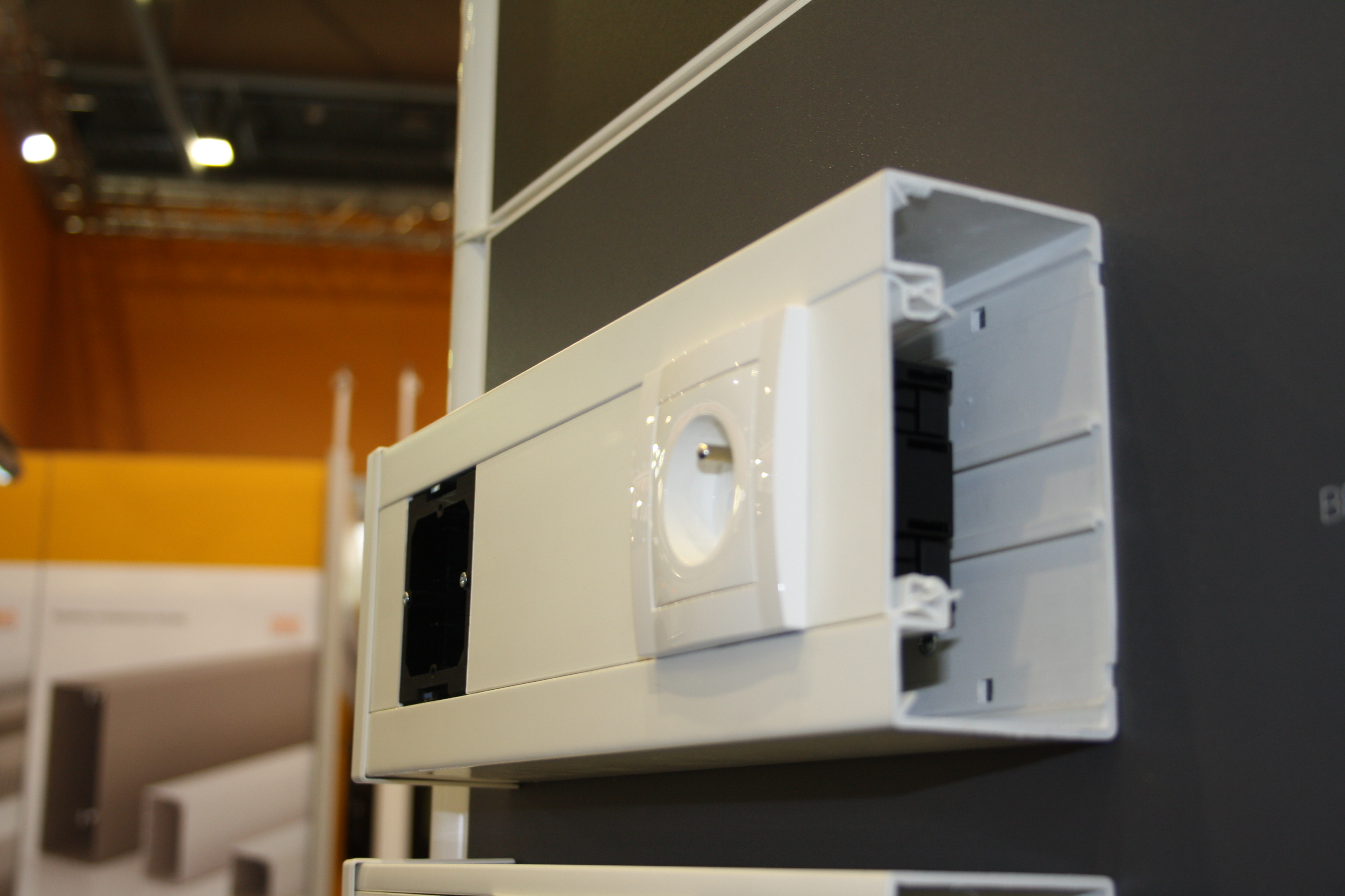 Cable channel with standard power socket